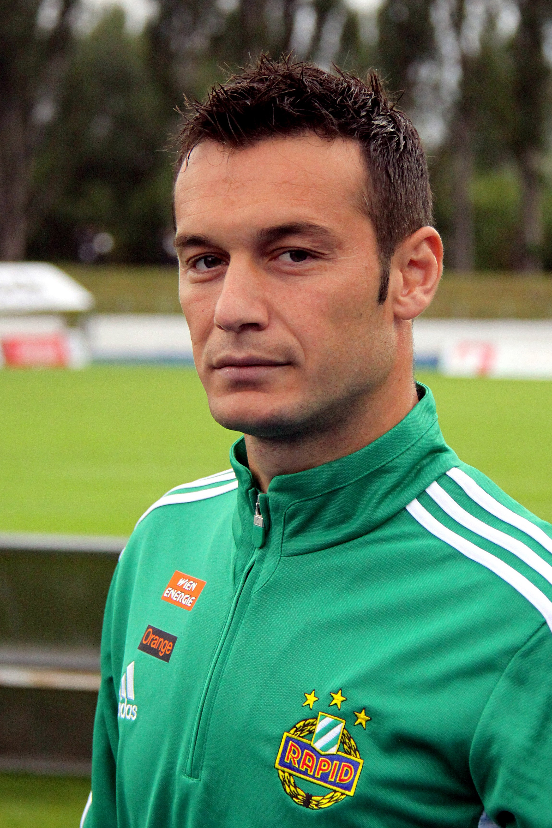 SC Wiener Neustadt (blue shirts) vs SK Rapid Wien (white shirts) 0:2 (0:0) – The foto shows Hamdi Salihi (SK Rapid Wien).